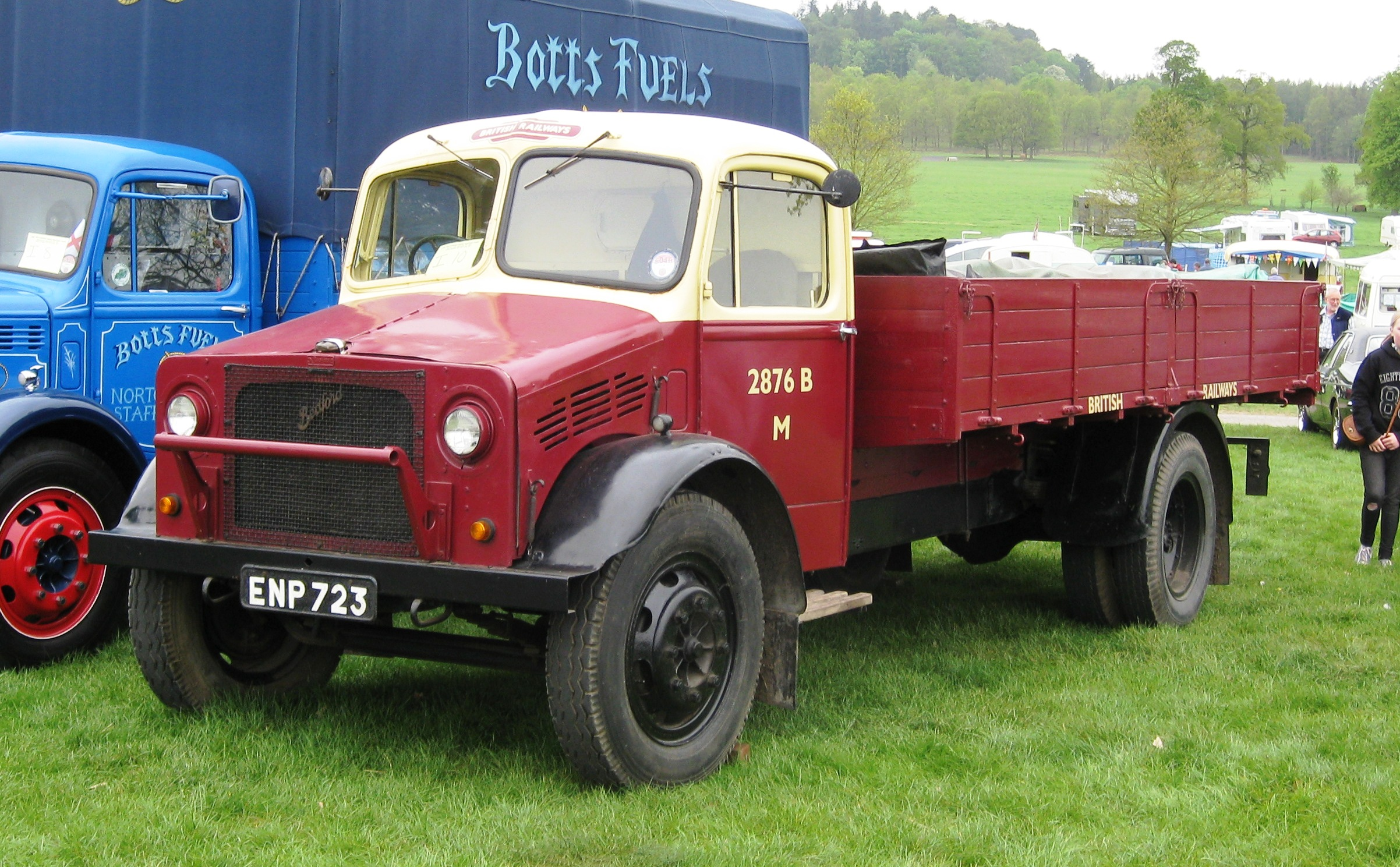 Bedford OY series truck (probably OYD). In view of its age, this vehicle may well have started life as an army truck as many of these did. But the current livery is that of a British Railways truck which would have been used to deliver freight items to and from train stations in the UK.